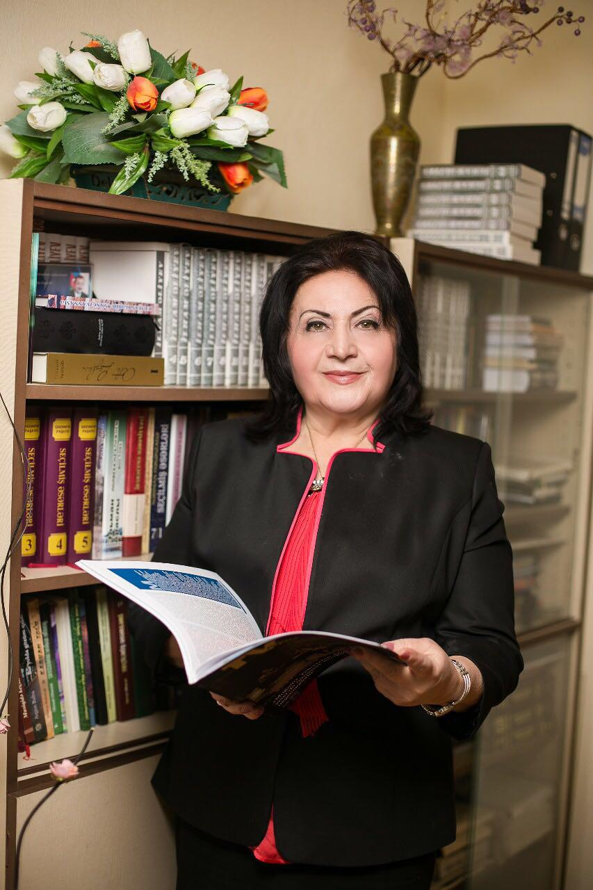 Şəfəq Sultan Əlixanlı